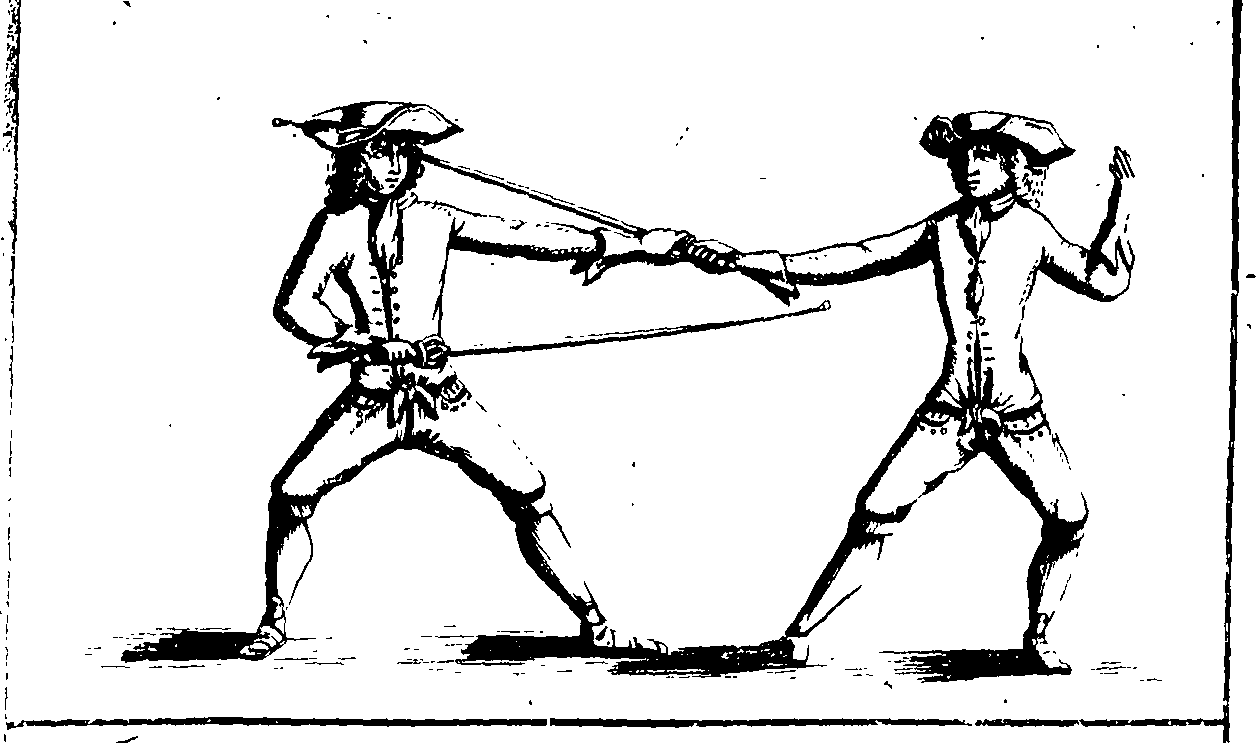 Fleuron from book: The art of fencing, or, the use of the small sword. Translated from the French of the late celebrated Monsieur L'Abbat; Master of that Art at the Academy of Toulouse. By Andrew Mahon, Professor of the Small Sword.